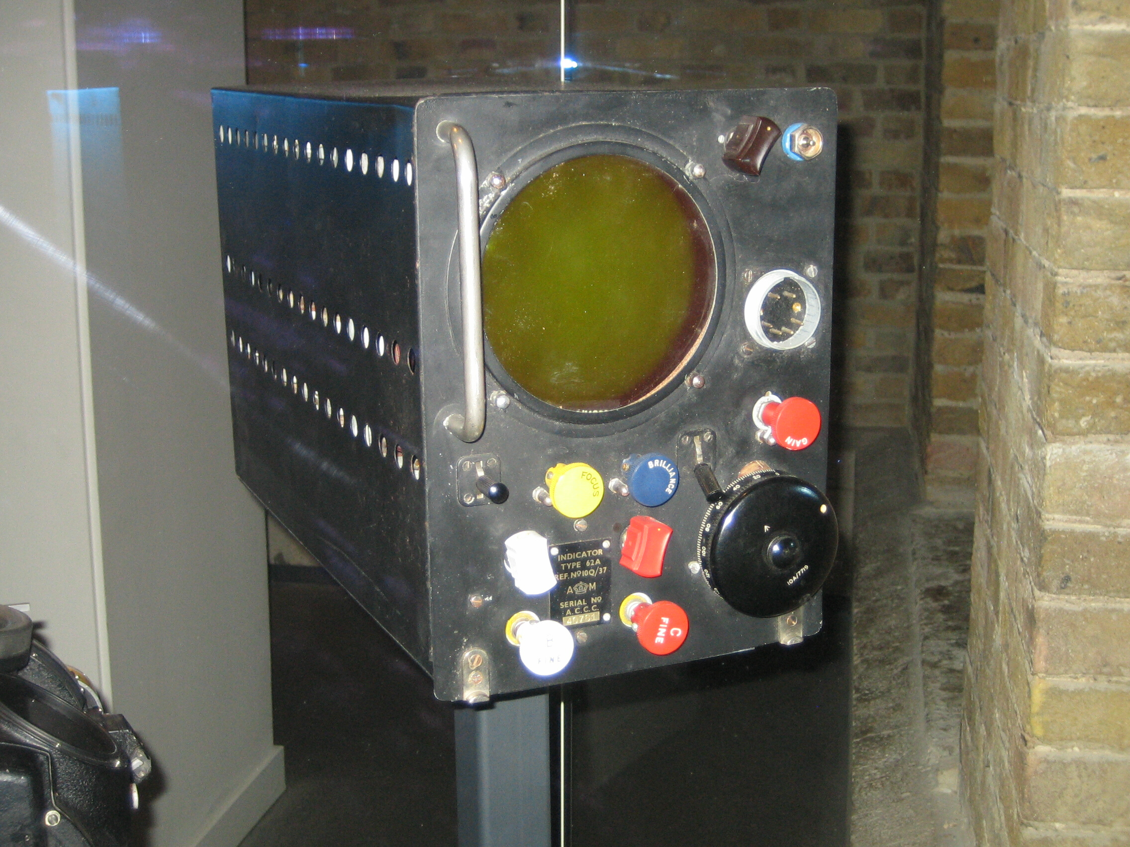 Unit 62A - The navigator's oboe display.